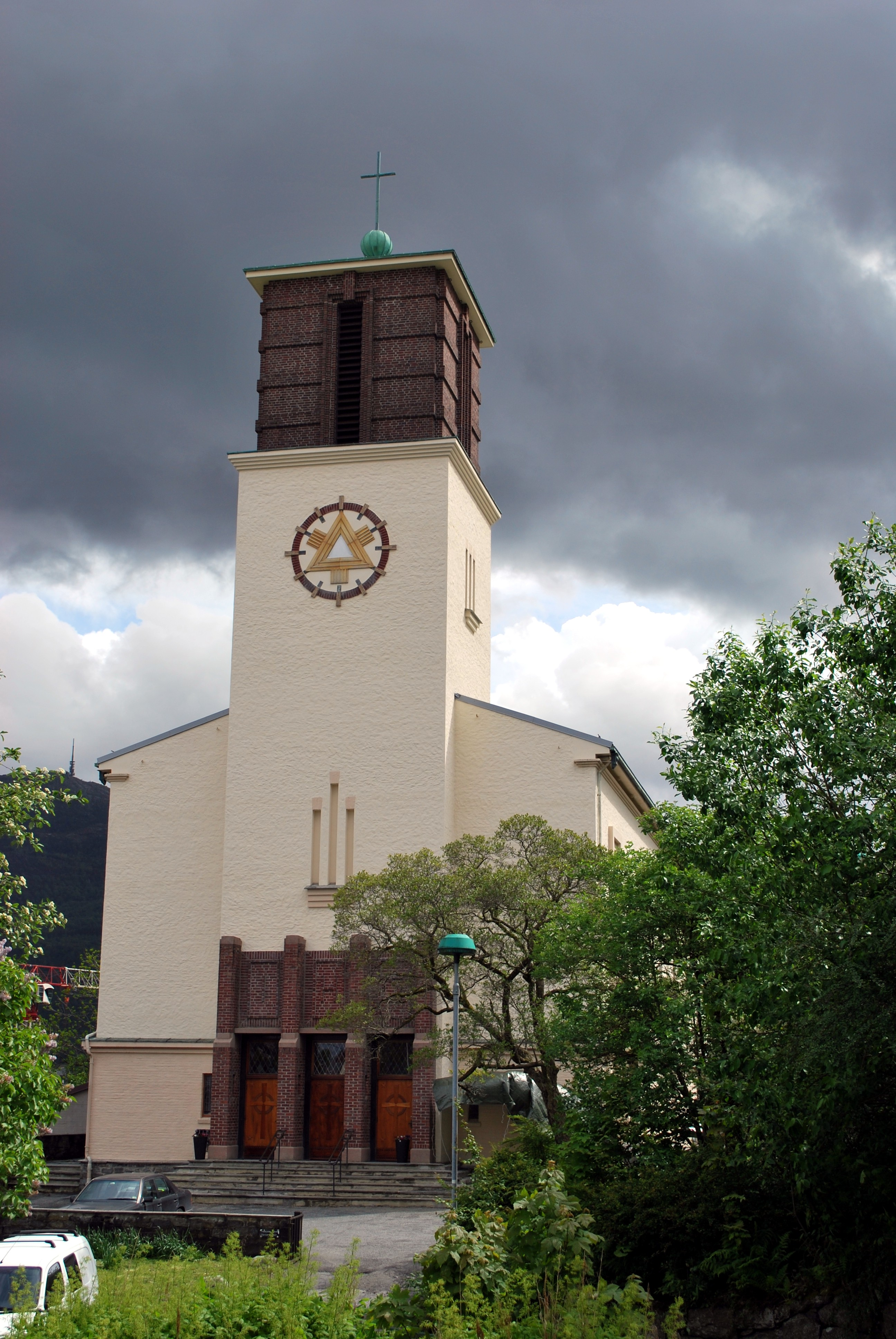 Sankt Markus church at Gyldenpris in Bergen.